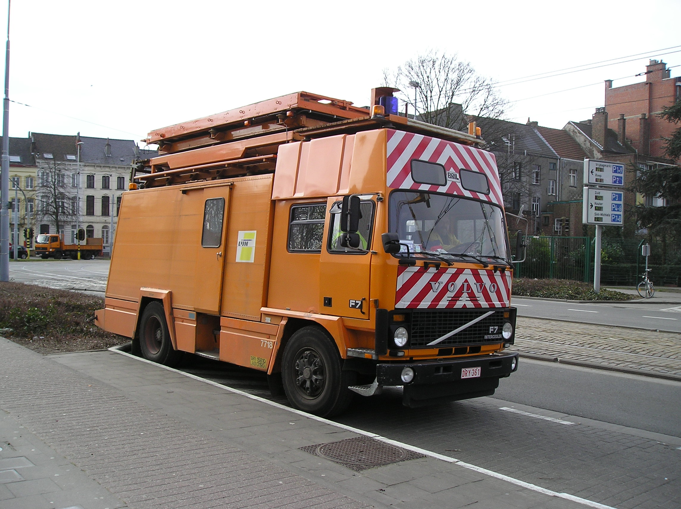 Service truck of the Flemish public transport operator De Lijn in Ghent, near bus stop Rabot.